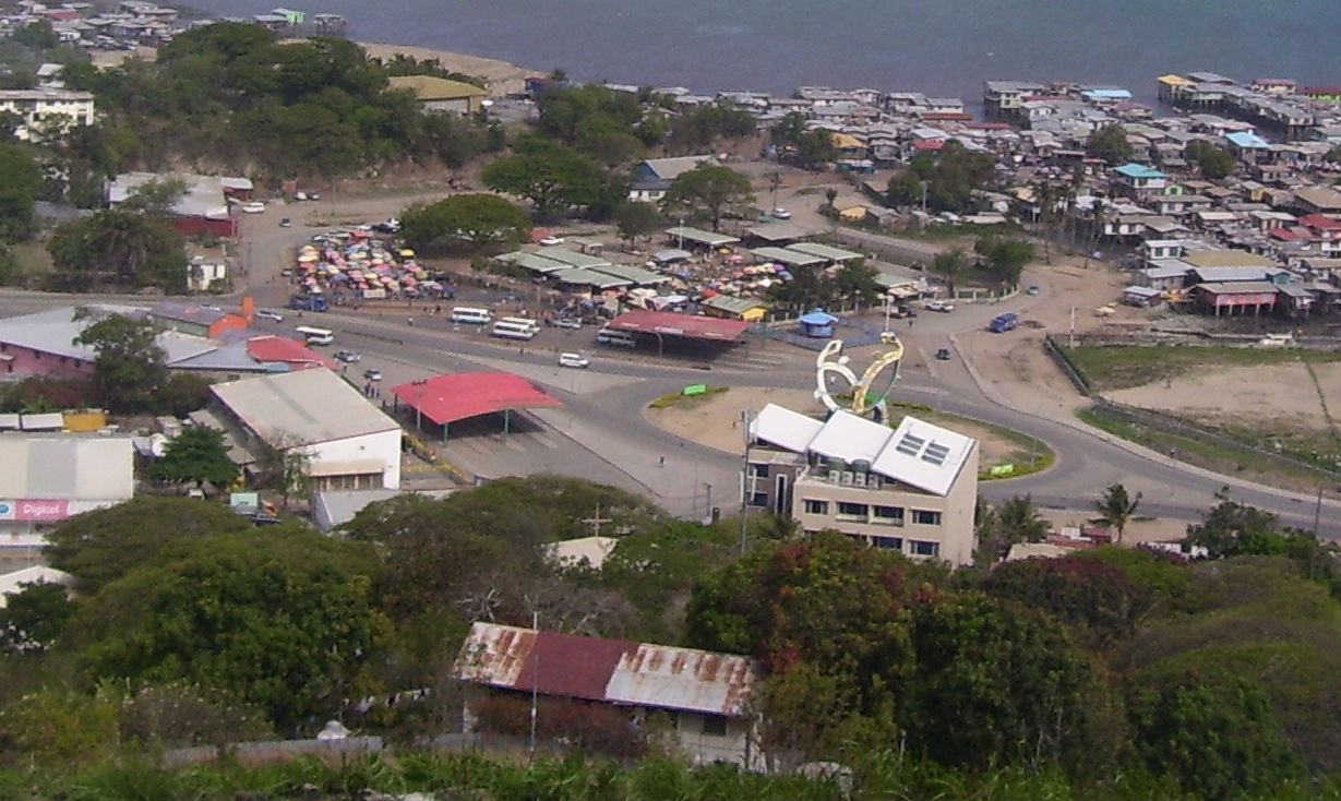 Walter Bay from hills immediately east of downtown Port Moresby